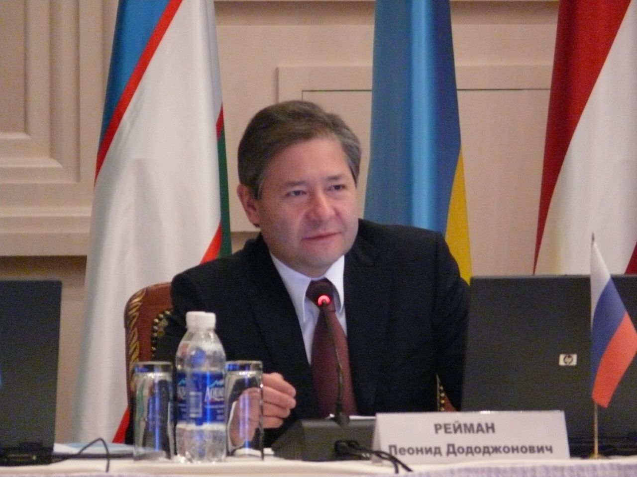 Former MInister of Communications of the Russian Federation